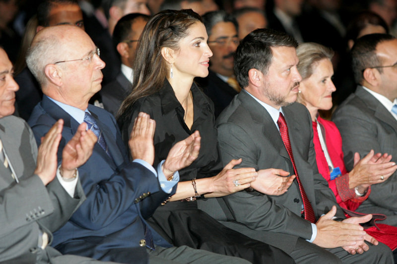 King Abdullah, Queen Rania, Klaus Schwab, Hilde Schwab captured at the World Economic Forum on the Middle East held at the Dead Sea in Jordan 18-20 May 2007.